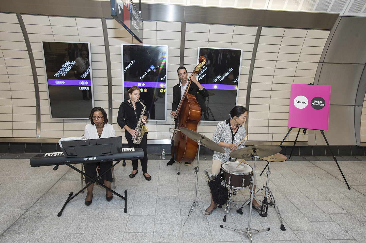 MTA Chairman and CEO Thomas Prendergast joins elected officials to dedicate the new 34 St-Hudson Yards station on Sun., September 13, 2015, which extends the 7 line to the West Side. Photo: Metropolitan Transportation Authority / Patrick Cashin